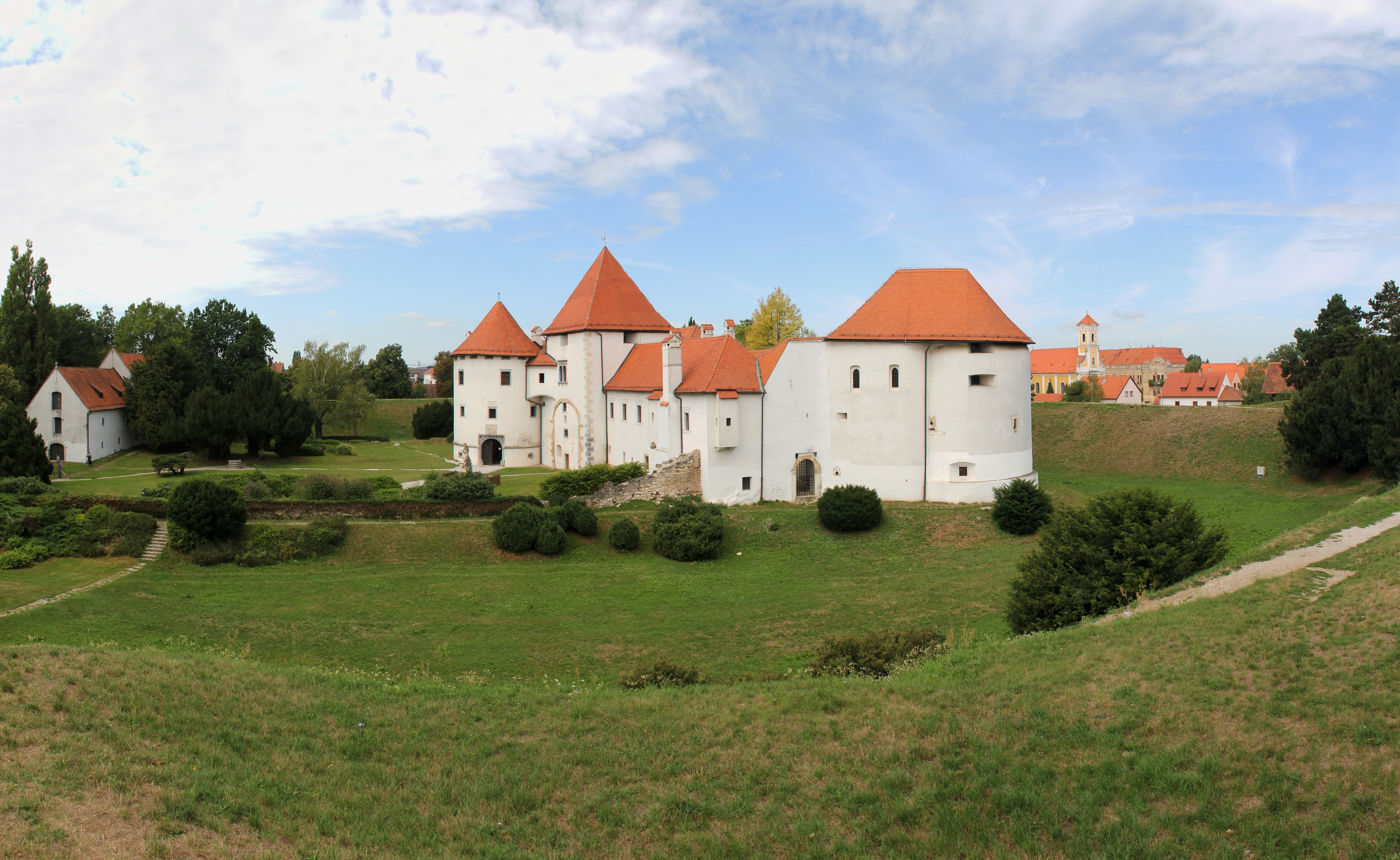 The Old Castle (Stari Grad) in Varaždin